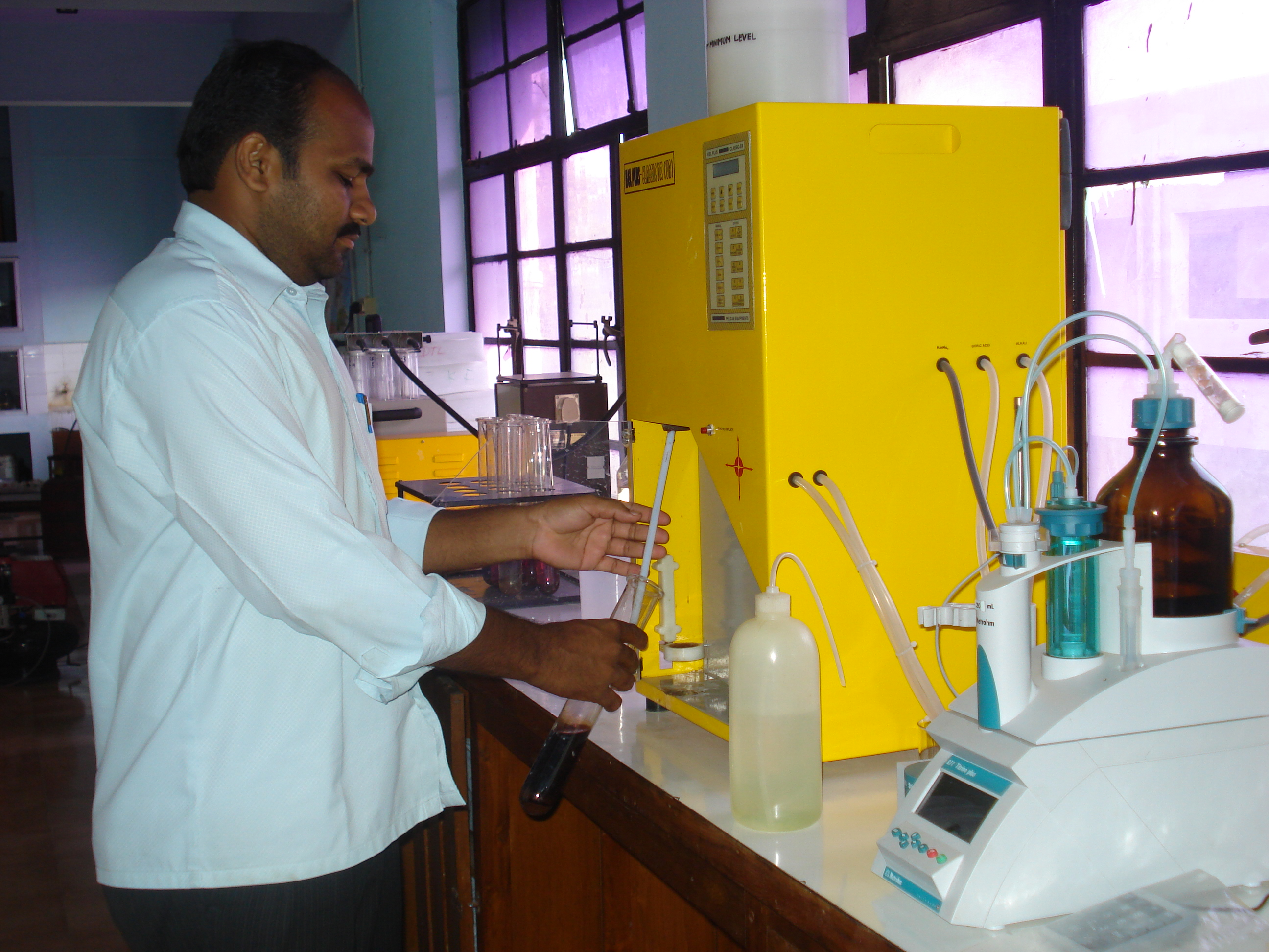 Analysing samples using Nitrogen Analyser